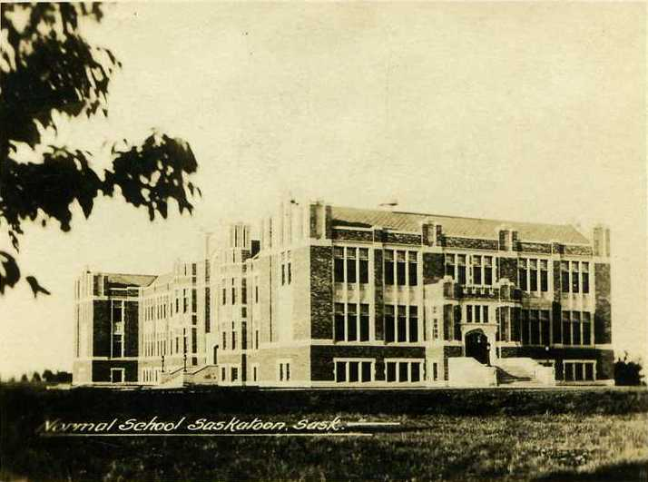 Postcard of the Saskatoon Normal School on Idlylwyld (Avenue A), Saskatoon, Canada. City of Saskatoon Archives, Historic Resources Collection. HST-042 Old Saskatoon Postcards (Box 3)